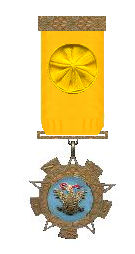 Orden Mexicana del Águila Azteca, Encomandia